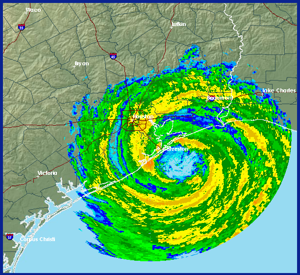 Radar image of Hurricane Ike at landfall. HGX Radar, Base Reflectivity, 1:07am CDT.